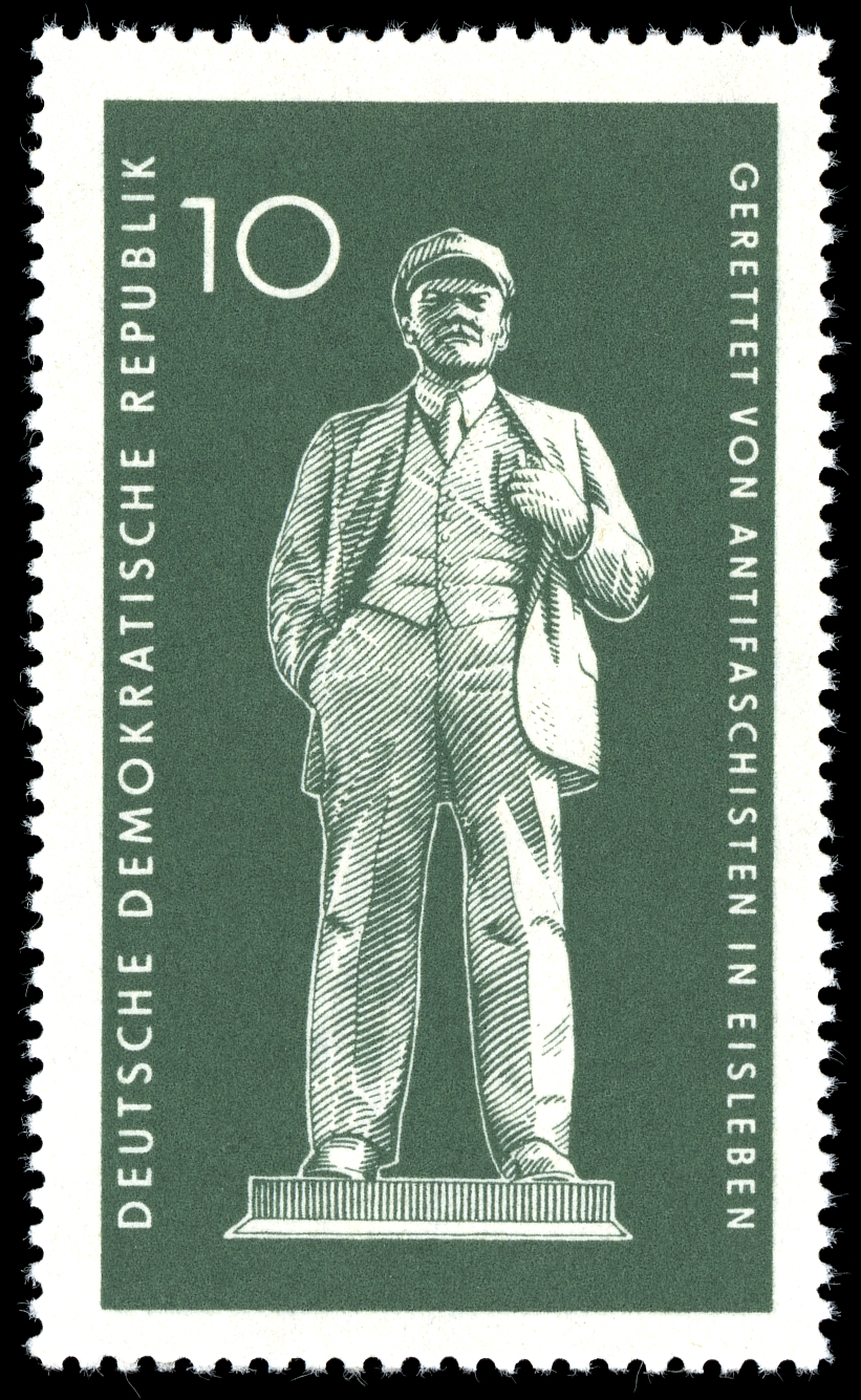 Ausgabepreis: Pfennig First Day of Issue / Erstausgabetag: Auflage: Entwurf: Druckverfahren: Michel-Katalog-Nr: Ländercode-MiNr: Licensing This file is most likely NOT in the public domain. It has been marked for review, and will be deleted in due course if the review does not find it to be in the public domain.This file was previously considered to be in the public domain as a German stamp; it is possible that it is in the public domain for other reasons, in which case a new rationale will be applied as part of the review process. See below for the previous rationale. Previous public domain rationale, no longer applicable This stamp is in the public domain in Germany because it was released by the postal administration of the German Democratic Republic or the Soviet occupation zone (Deutschen Post der DDR) whose legal successor is the Federal Republic of Germany. Thus it is an official work according to German copyright law (§ 5 Abs. 1 UrhG).